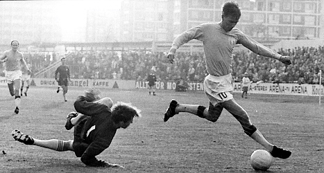 Dag Szepanski, swedish footballplayer. Malmö FF-Helsingborgs IF 5 juni 1968.